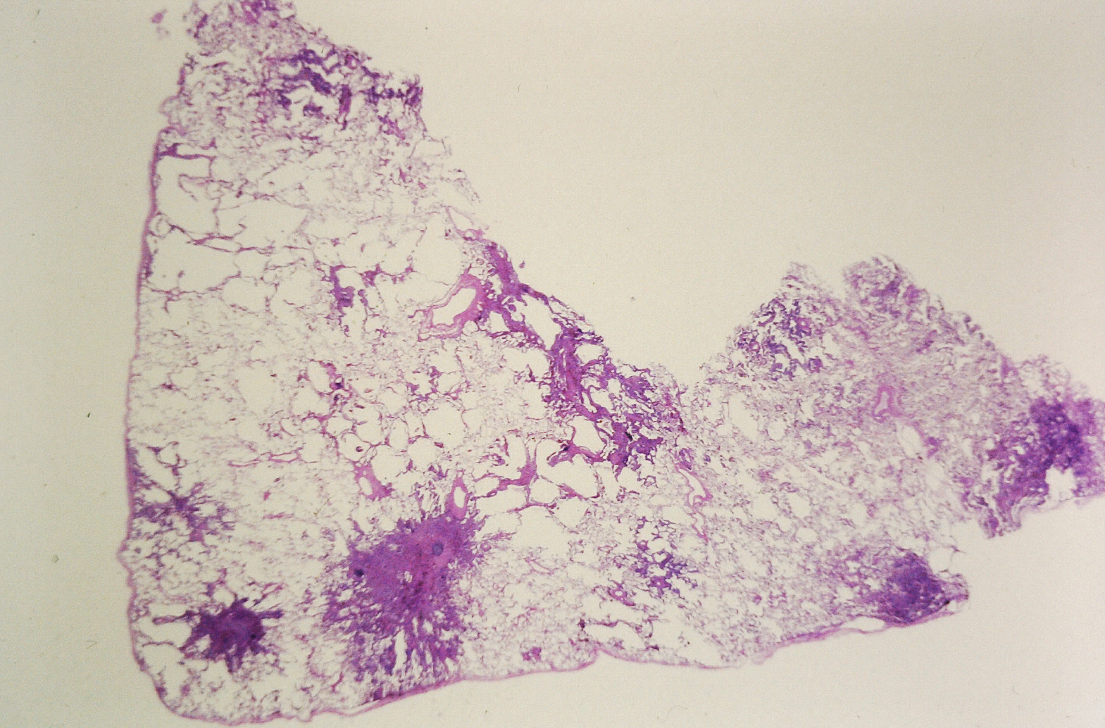 This low magnification images shows the characteristic stellate lesions of Langerhans cell histiocytosis. That the lesions are localized around airways is not apparent at this magnification. Contributed by Philip Kane, MD